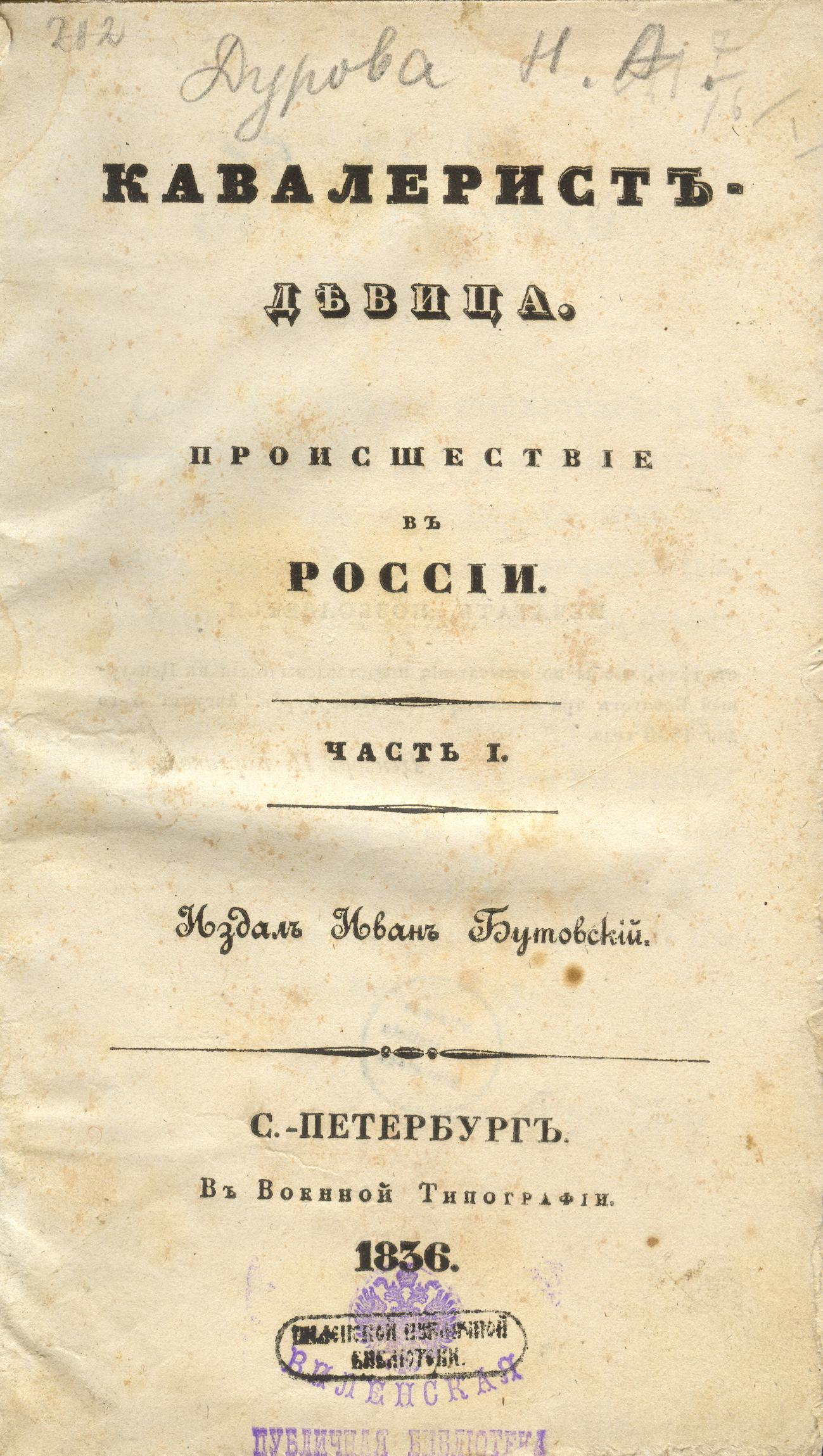 Cover of first edition of "The Cavalry Maiden" (1836) by Nadezhda Durova (1783-1866), the first known female officer in the Russian military and writer Scan by Alma Pater 11:02, 22 December 2006 (UTC)